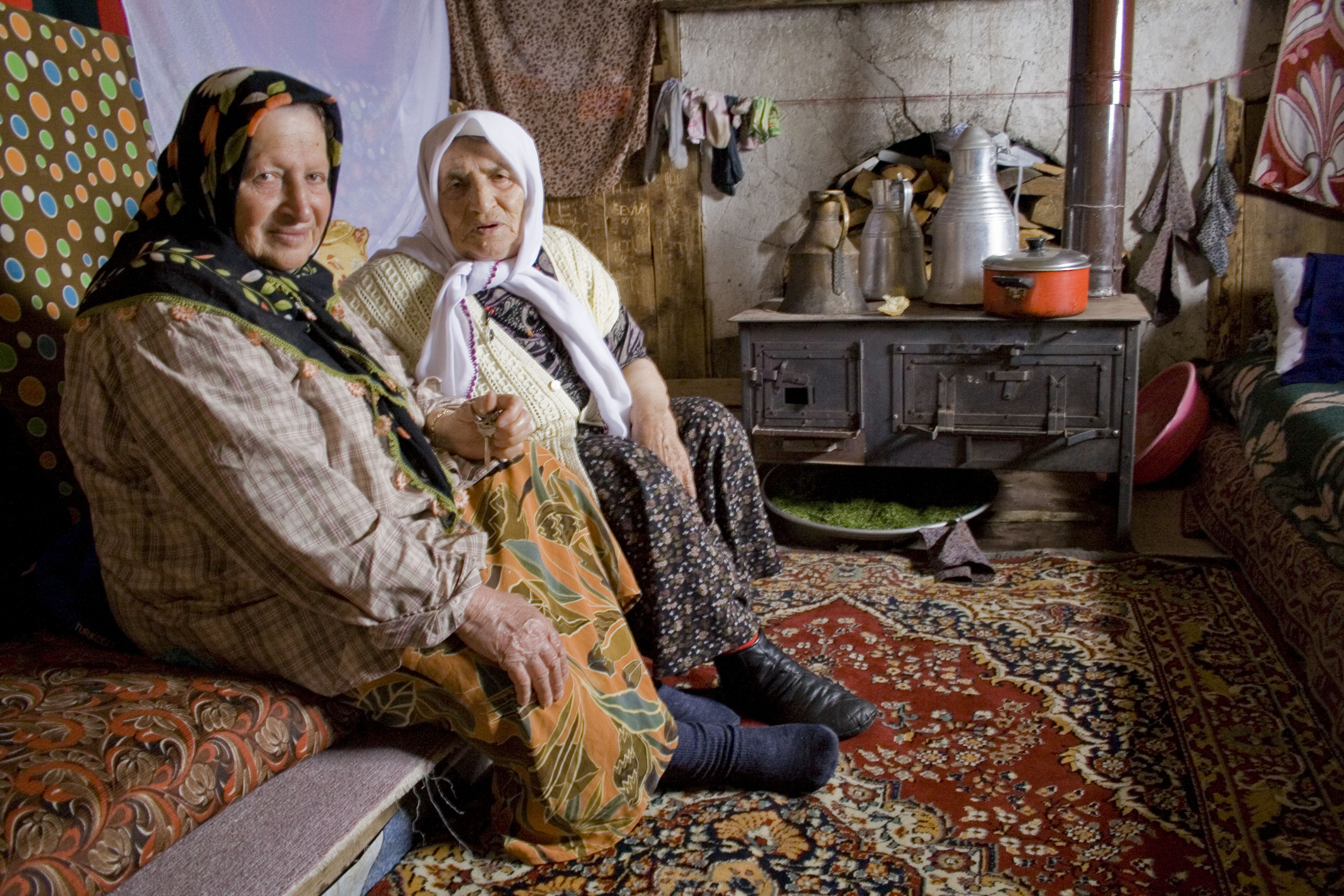 Two women in a traditional chalet in the summer village on an Alpine tundra.